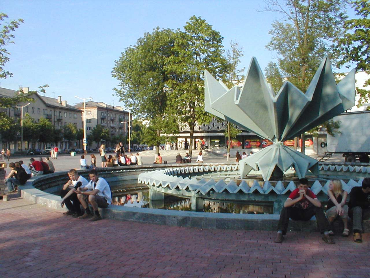 The Fountain at Baranovichi's Central Square, one of the most popular places of citizens' leisure. Photo by Igor Mostitsky. 31 May 2003